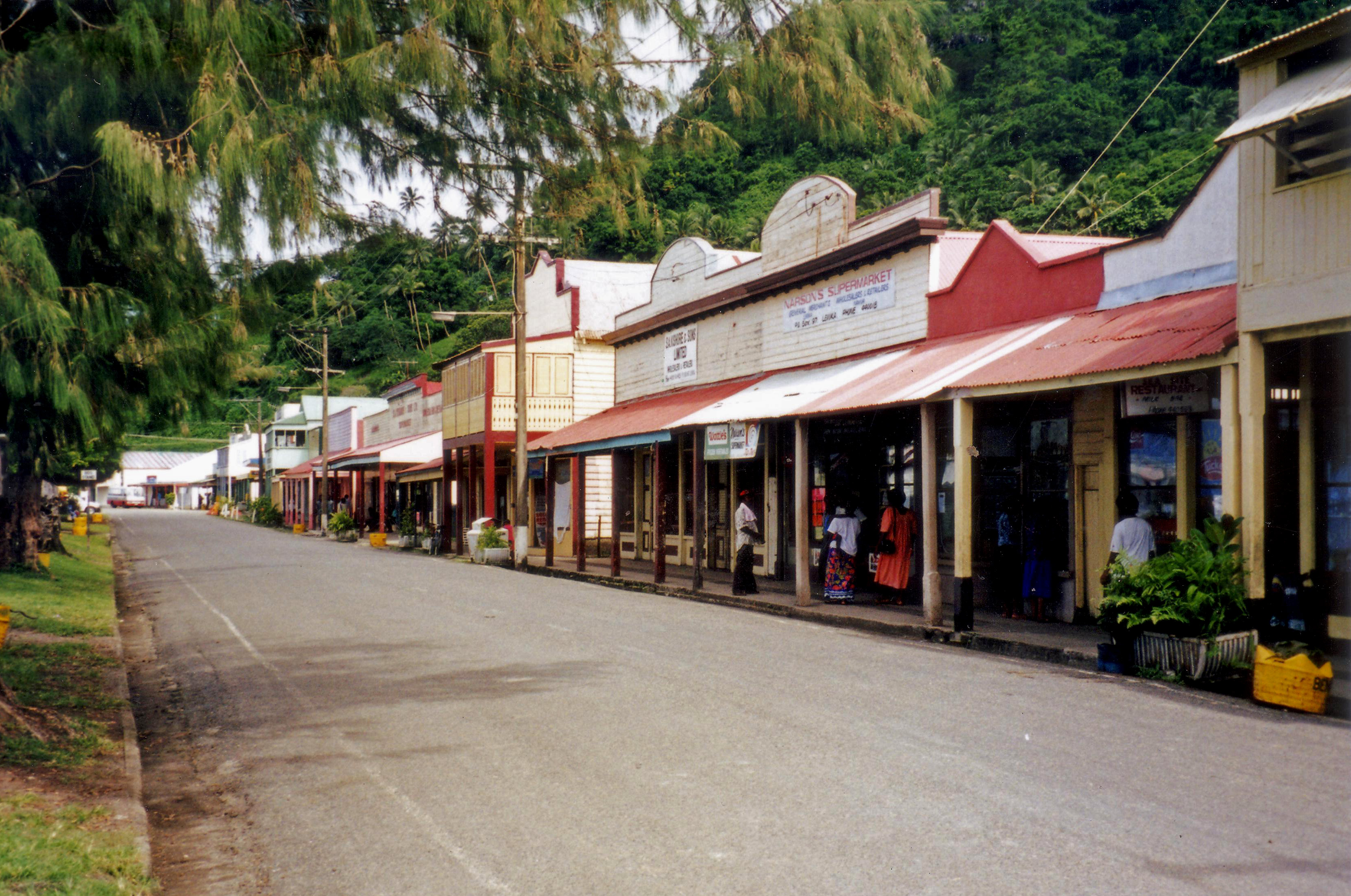 Scan of photo taken by myself in Fiji town of Levuka